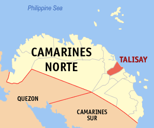 Map of Camarines Norte showing the location of Talisay